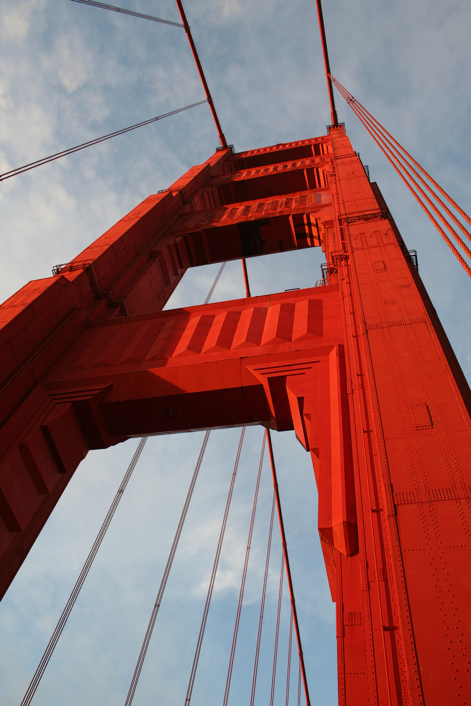 Golden Gate Bridge tower−steel pillar, with Art Deco reliefs.